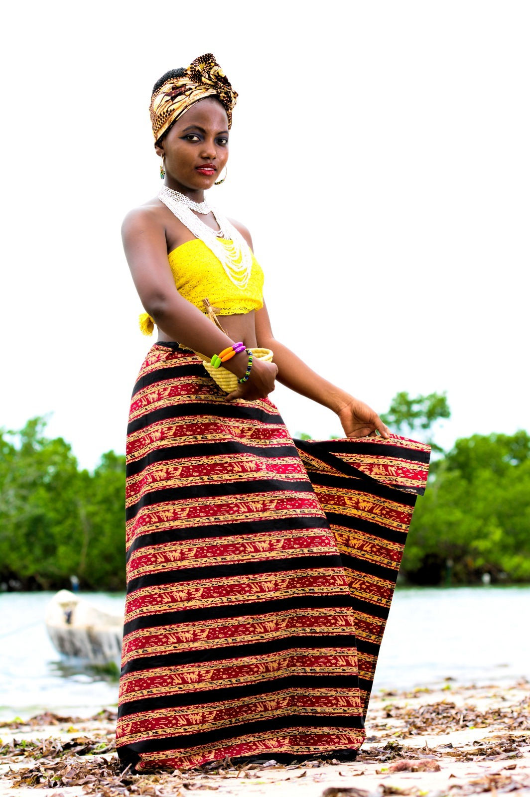 Kiswahili: Kilemba, Shanga za shingoni, Kitenge This is an image of Cultural Fashion or Adornment from Tanzania